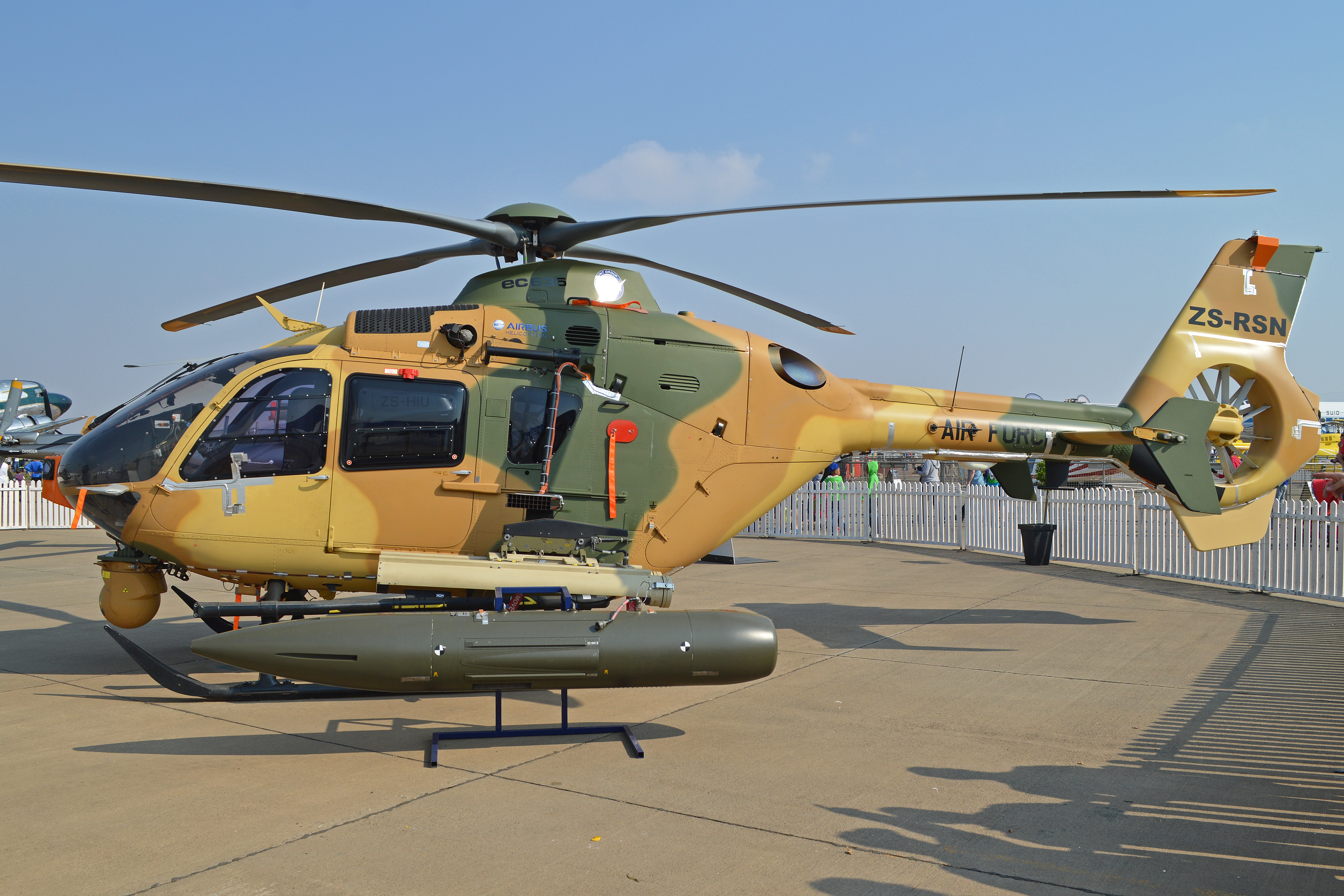 c/n 0858. Currently operated by Eurocopter in South Africa for Stand Alone weapons systems tests. On completion of tests it will join the Iraqi Air Force, whose colour scheme it wears. Seen on static display at Waterkloof AFB during the 2014 AAD (African Aerospace & Defence) airshow. 20-9-2014